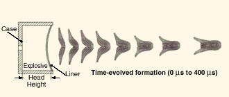 Formation of an EFP warhead, US Air Force Research Labs